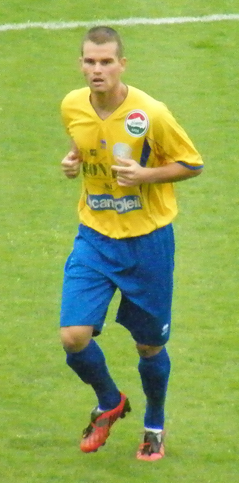 József Magasföldi Hungarian football player